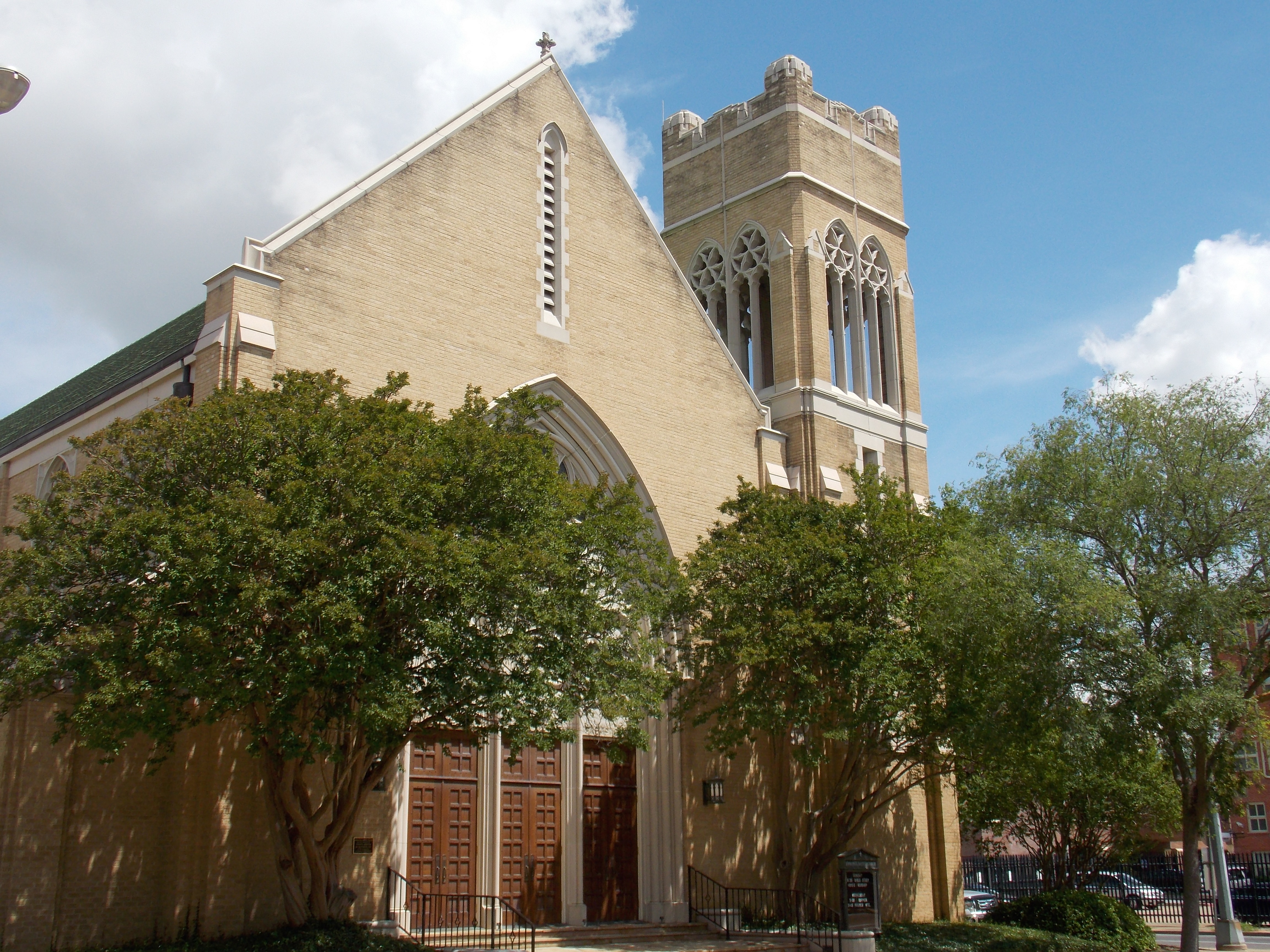 Emmanuel Baptist Church in Alexandria, Louisiana is listed on the National Register of Historic Places.